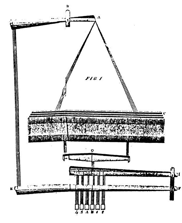 Plate showing a loom from John Duncan, Practical and Descriptive Essays on the Art of Weaving (1808).